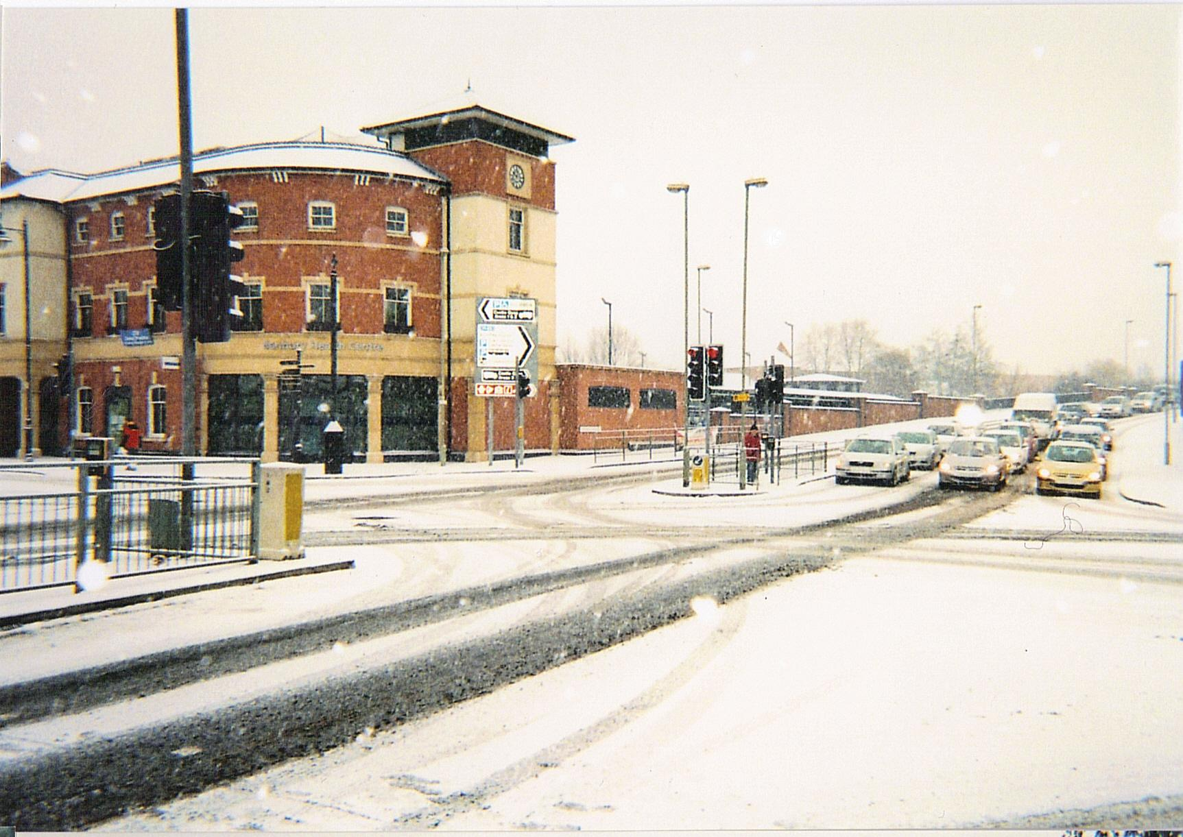 Ungritted roads in the town centre in Banbury, on the 18th of December, 2010.